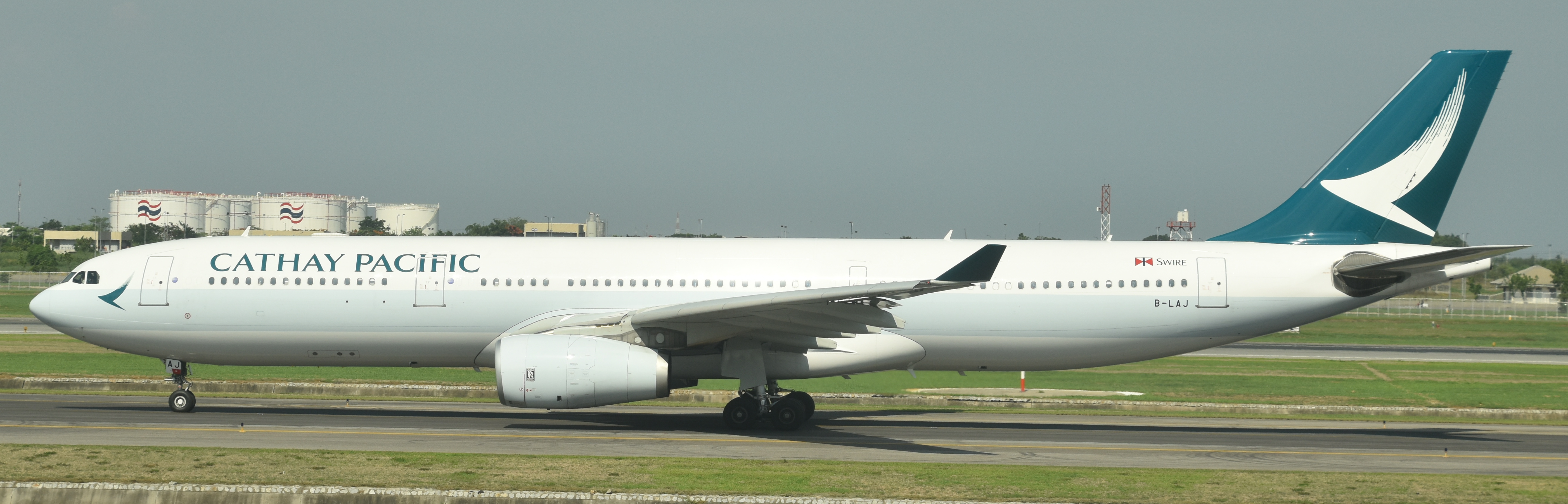 Airbus A330 of Cathay Pacific Airways,sporting the new livery, at Bangkok-BKK, Thailand, 09/06/16.